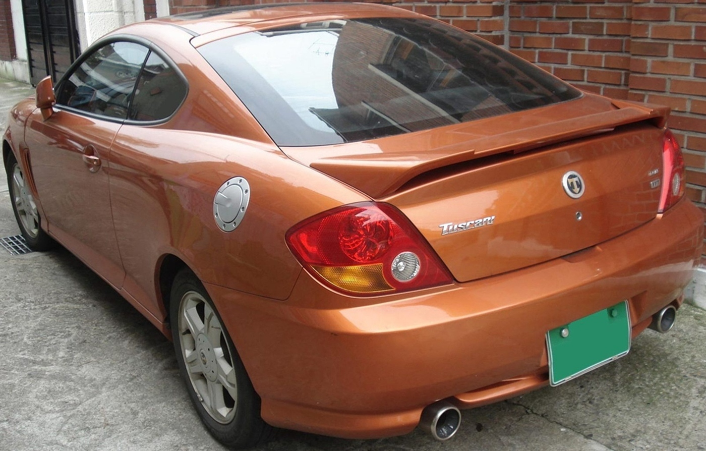 Hyundai Tuscani